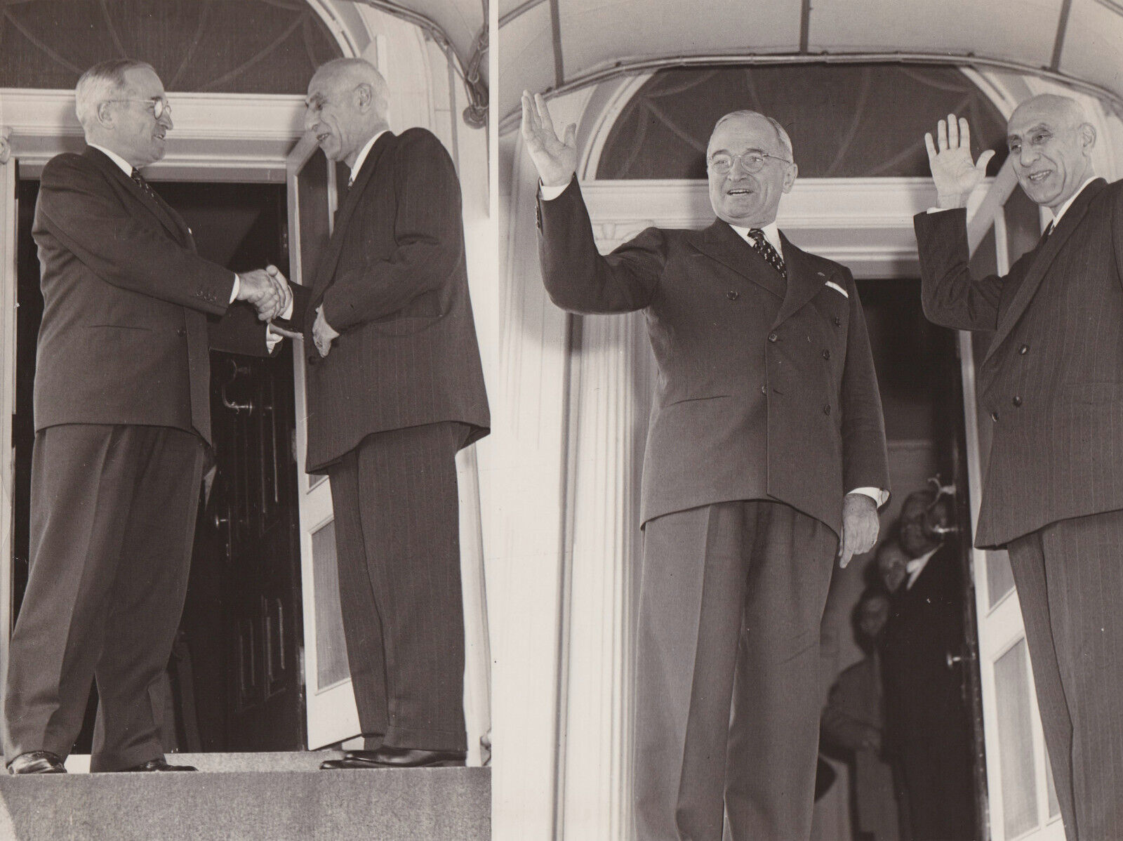 Iran's prime minister Mohammad Mossadegh and US president Harry S. Truman